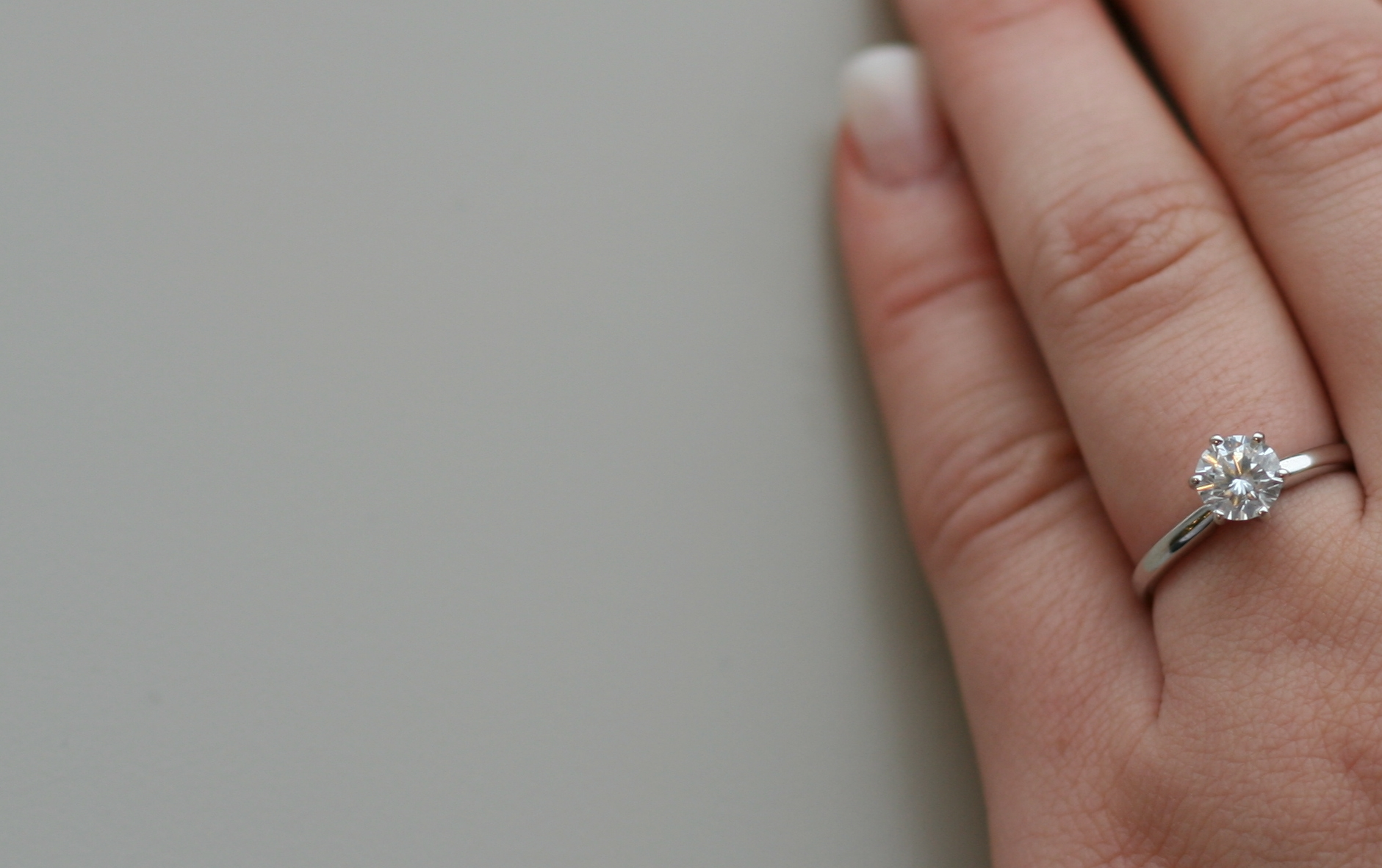 Diamond engagement ring on woman's left hand.